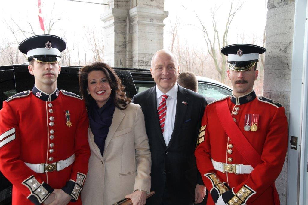 On April 8, 2014, Ambassador Bruce Heyman presented his credentials to His Excellency the Right Honourable David Johnston, Governor General of Canada. For more info, read our story at Watch the video at